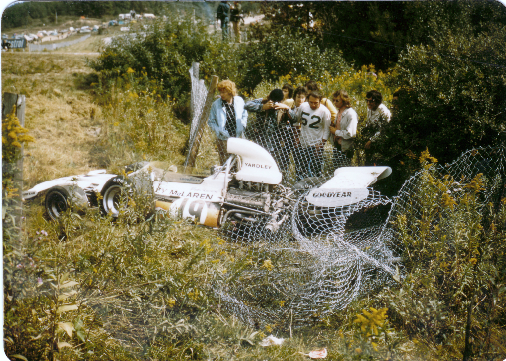 Peter Revson's McLaren M19C, Canadian G.P. Mosport Park, Sept. 23, 1972. Revson set the Pole Position lap, then on the next lap the Left rear wheel nut flew off, then the wheel itself and he crashed at turn two.